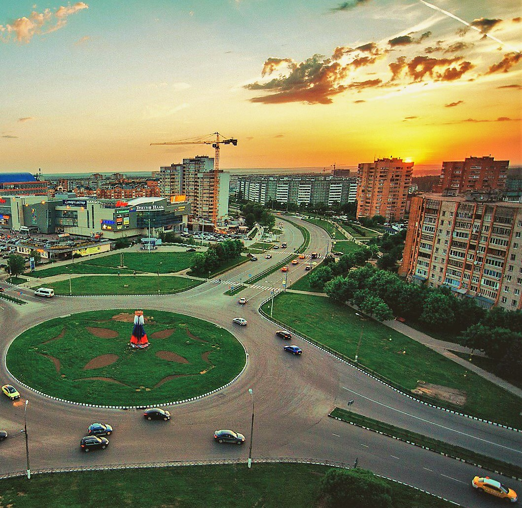 Obninsk